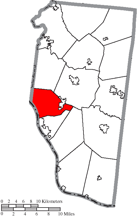 Map of the municipal and township boundaries of Clermont County, Ohio, United States, as of the 2000 census, with the location of Pierce Township highlighted. Township borders are shown only in unincorporated areas in order to differentiate incorporated and unincorporated areas more clearly.